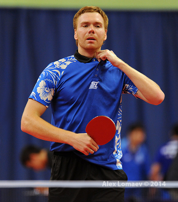 Vasily Lakeev, russian table tennis player